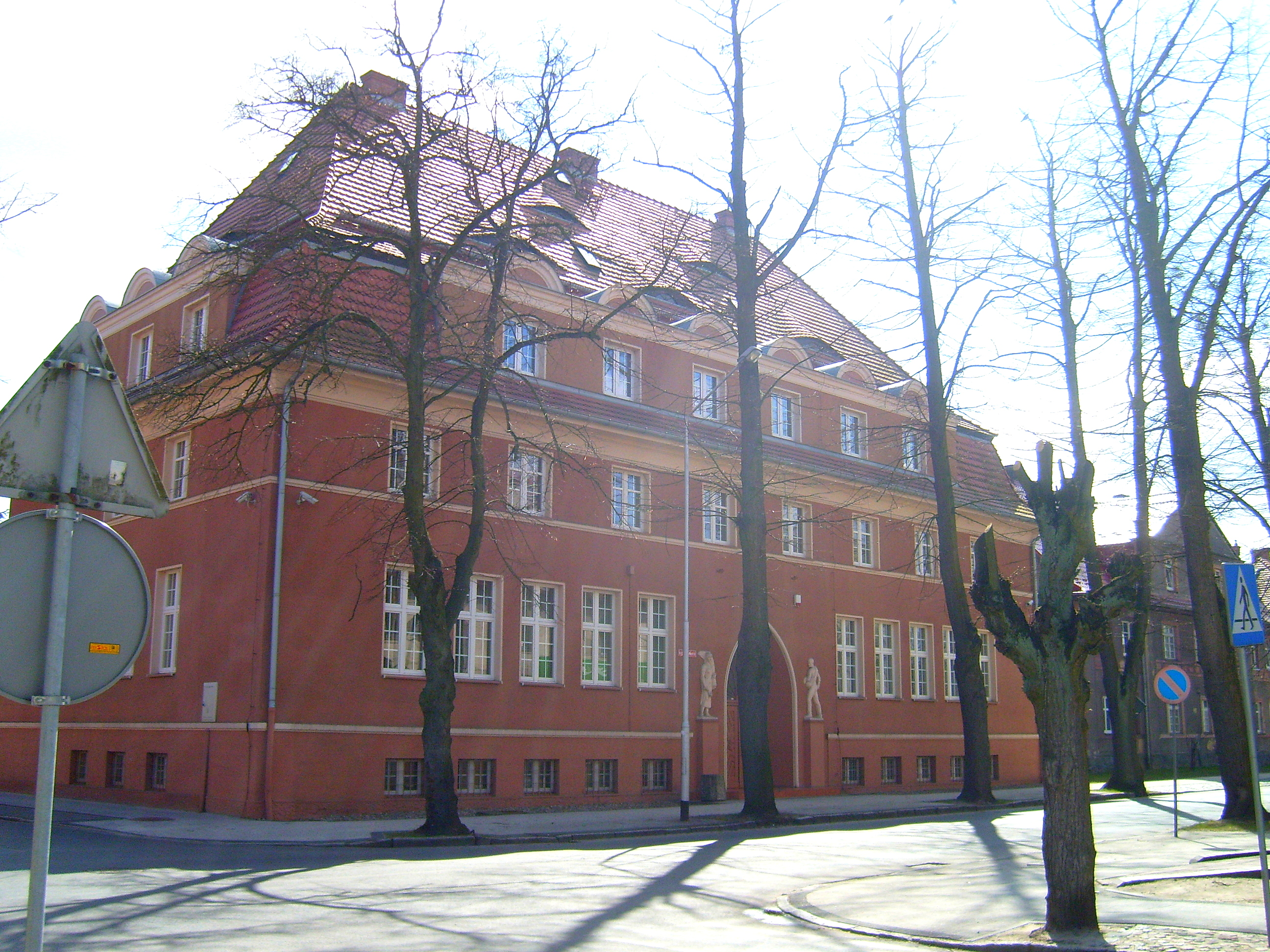 District Court in Trzcianka.